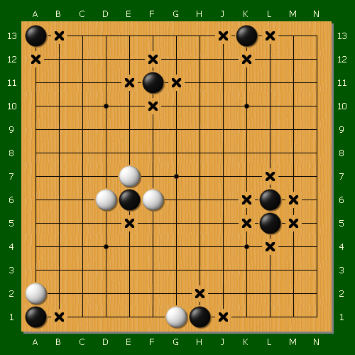 weiqi-qi (go-qi)